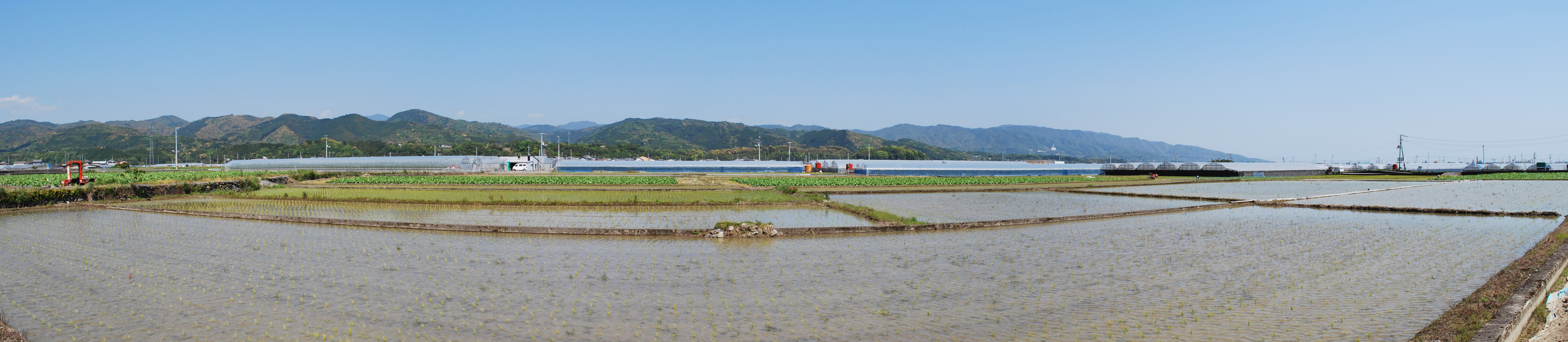 Aki Plain view